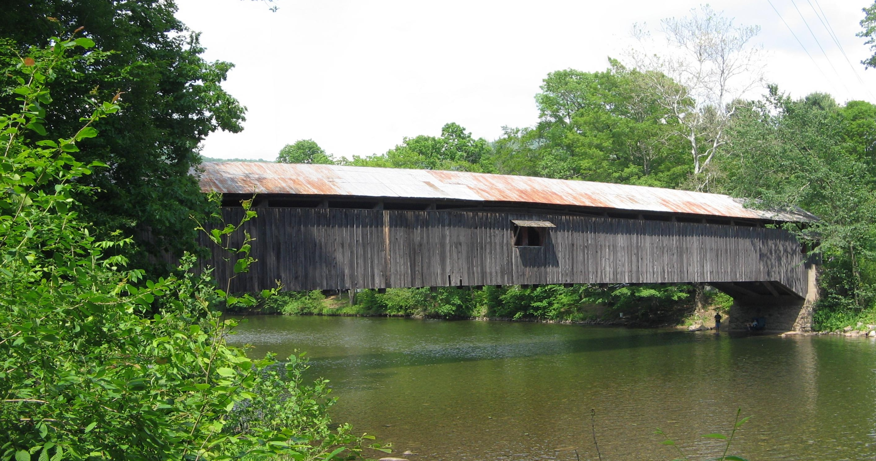 Hillsgrove Covered Bridge over Loyalsock Creek in Hillsgrove Township, Sullivan County, Pennsylvania in the United States.